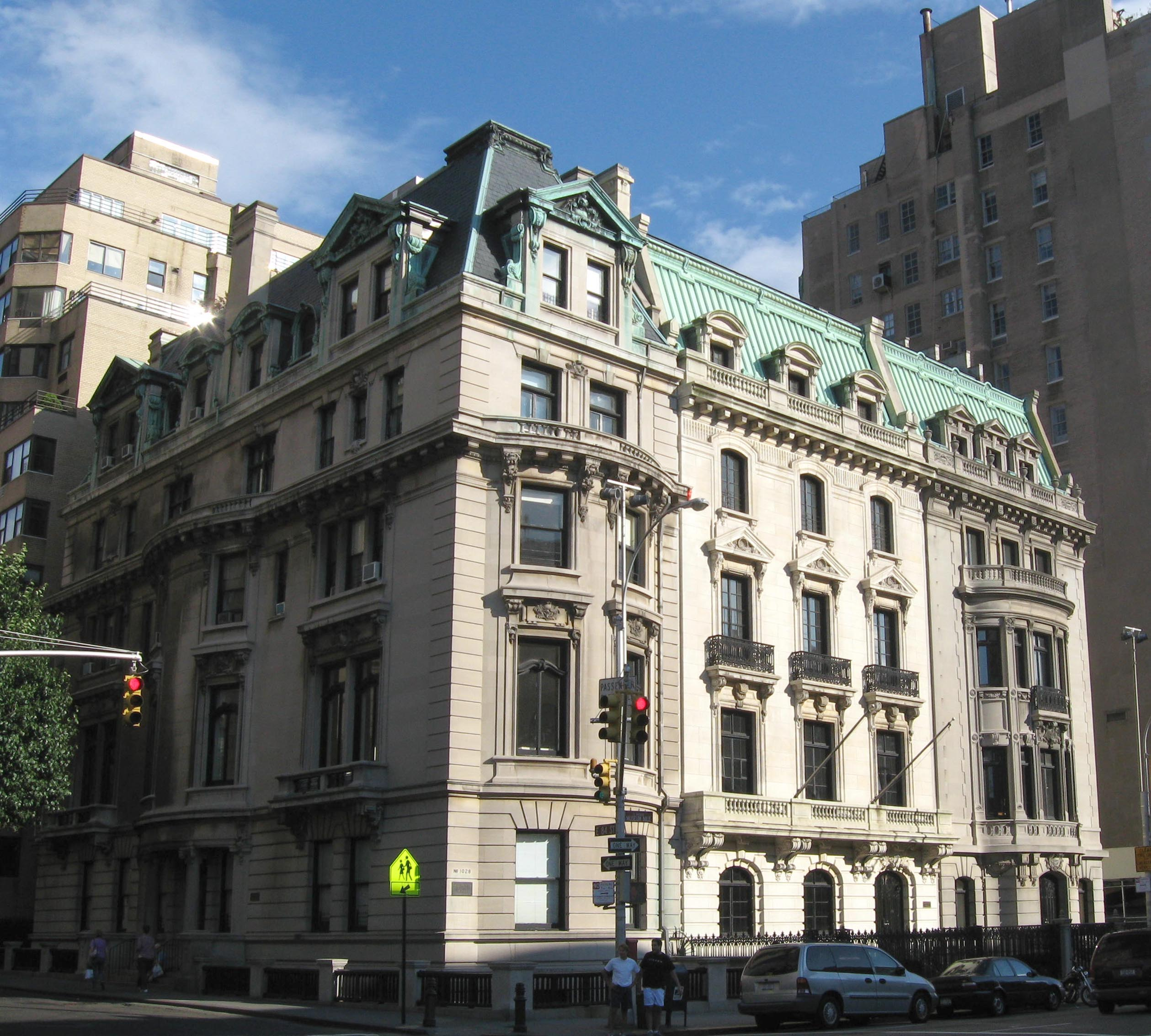 Looking east across 5th Avenue and 84th Street at Marymount School, New York. See also File:1026-1028-fifth-nyc.jpg